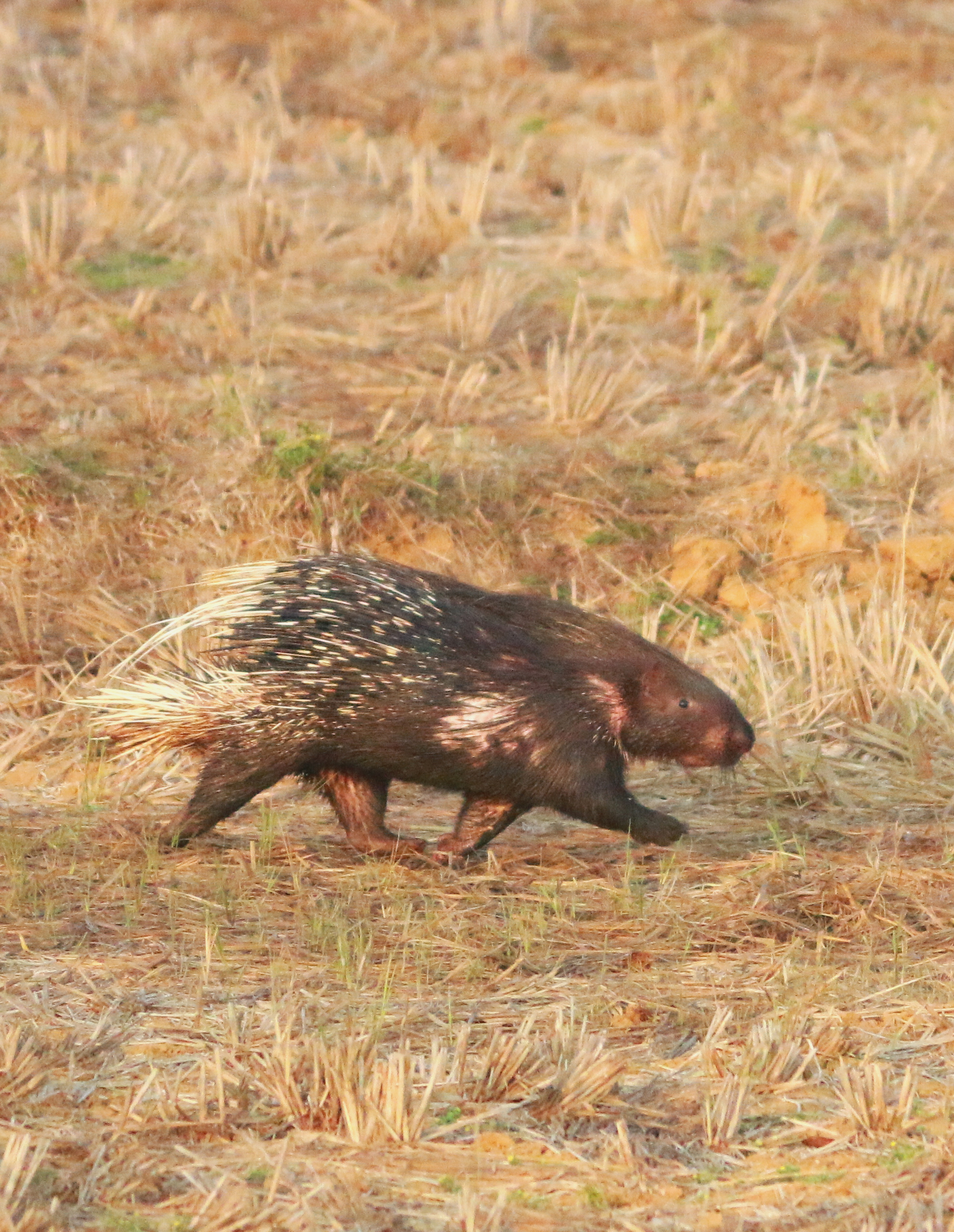 Porcupine